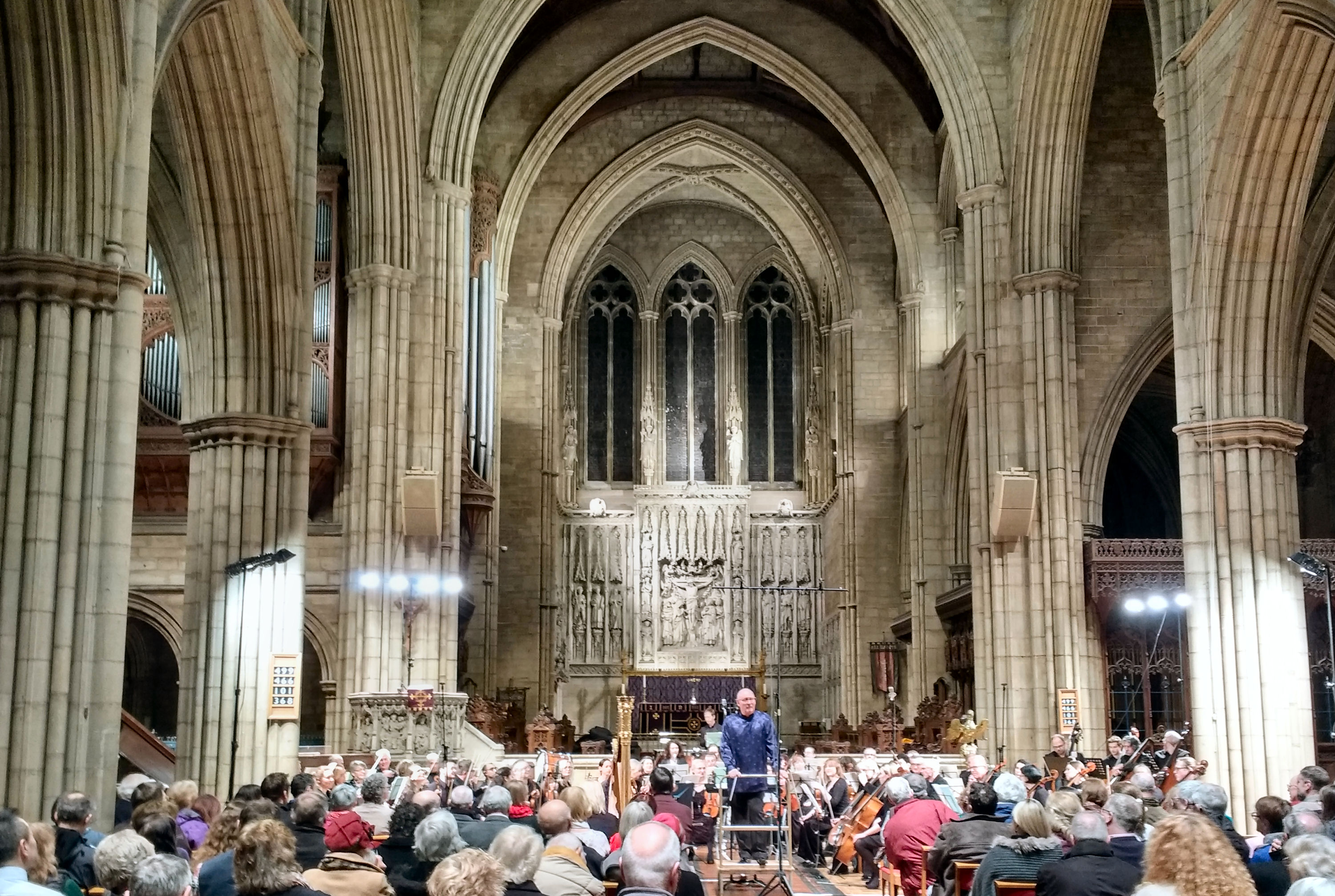 All Saints Church, Hove, interior during the concert by Sussex Symphony Orchestra. Saturday March 10th 2018, 7.30pm Glinka ‘Ruslan and Ludmilla’ Overture Glière Harp Concerto – Soloist – Alexander Rider Saint Saëns Symphony No. 3 ‘The Organ’ soloist D’Arcy Trinkwon Conductor – Mark Andrew James